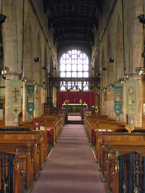 St Chad's, Holt Looking down the central aisle of the church.